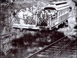 Orange Mountain Cable Company